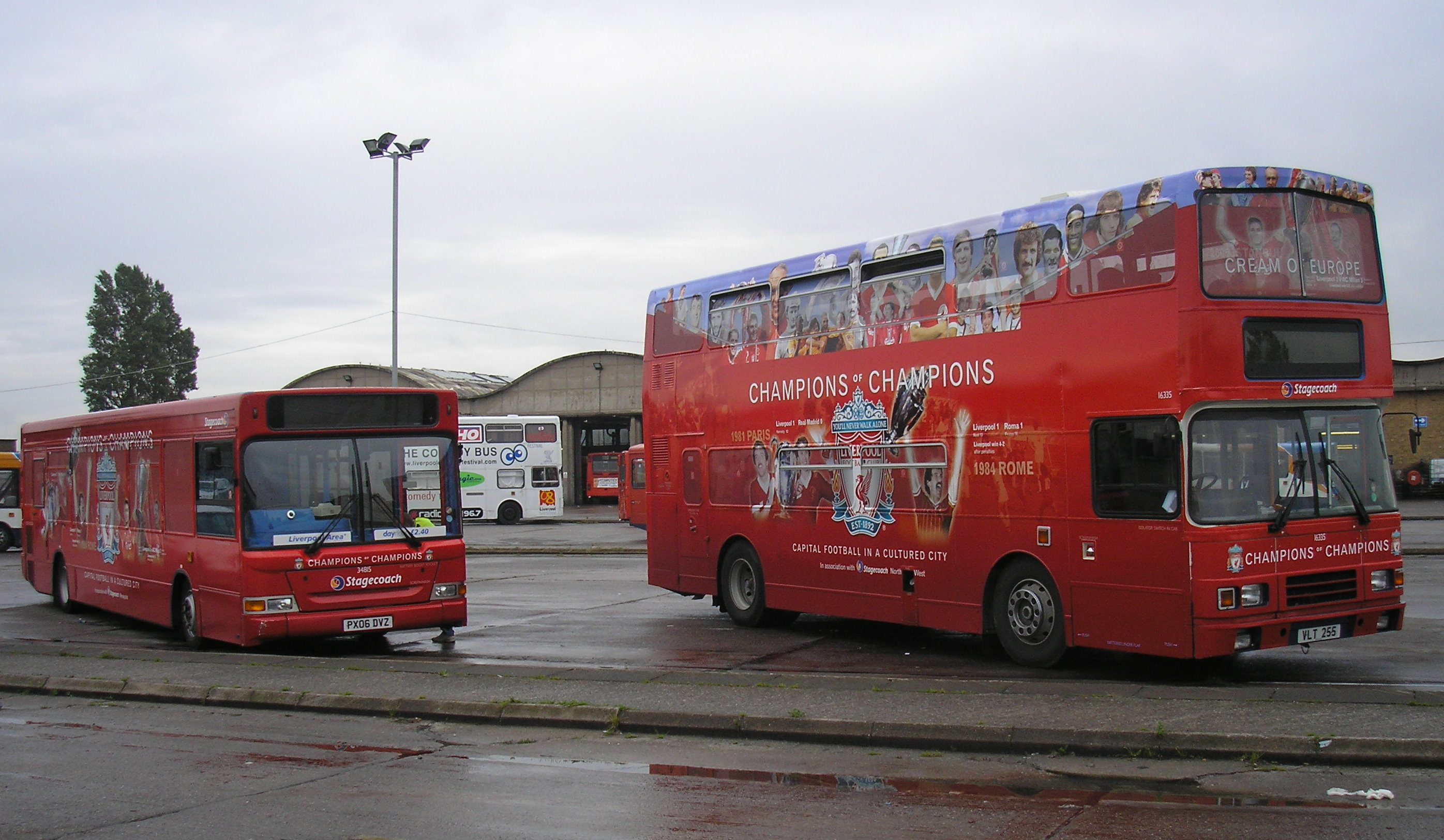 Two Stagecoach Group buses pictured at the company's Gillmoss depot in Liverpool. On the left is Stagecoach Merseyside bus 34815 (reg. PX06 DVZ), while on the right is Stagecoach North West bus 16335 (reg. VLT 255). They're both wearing a promotional Champions of Champions all-over livery, celebrating Liverpool football club's record in European football. They feature images and facts from the club's 5 successful European Cup victories of 1977, 1978, 1981, 1984 and 2005. Pictured at Stagecoach Merseyside's Gillmoss depot on 11 July 2007, the buses had been officially launched at the club's ground, Anfield, on 20 June 2007. Showcasing the livery, 16335 operates on the X2 route between Liverpool, Southport and Preston, while 34815 operates across Merseyside. Partially obscured by 34815 is another promotional bus, Liverpool Comedy Trust's 'Comedy Bus' (reg. OJD 808Y), an ex-London Transport 1983 MCW Metrobus (M808).